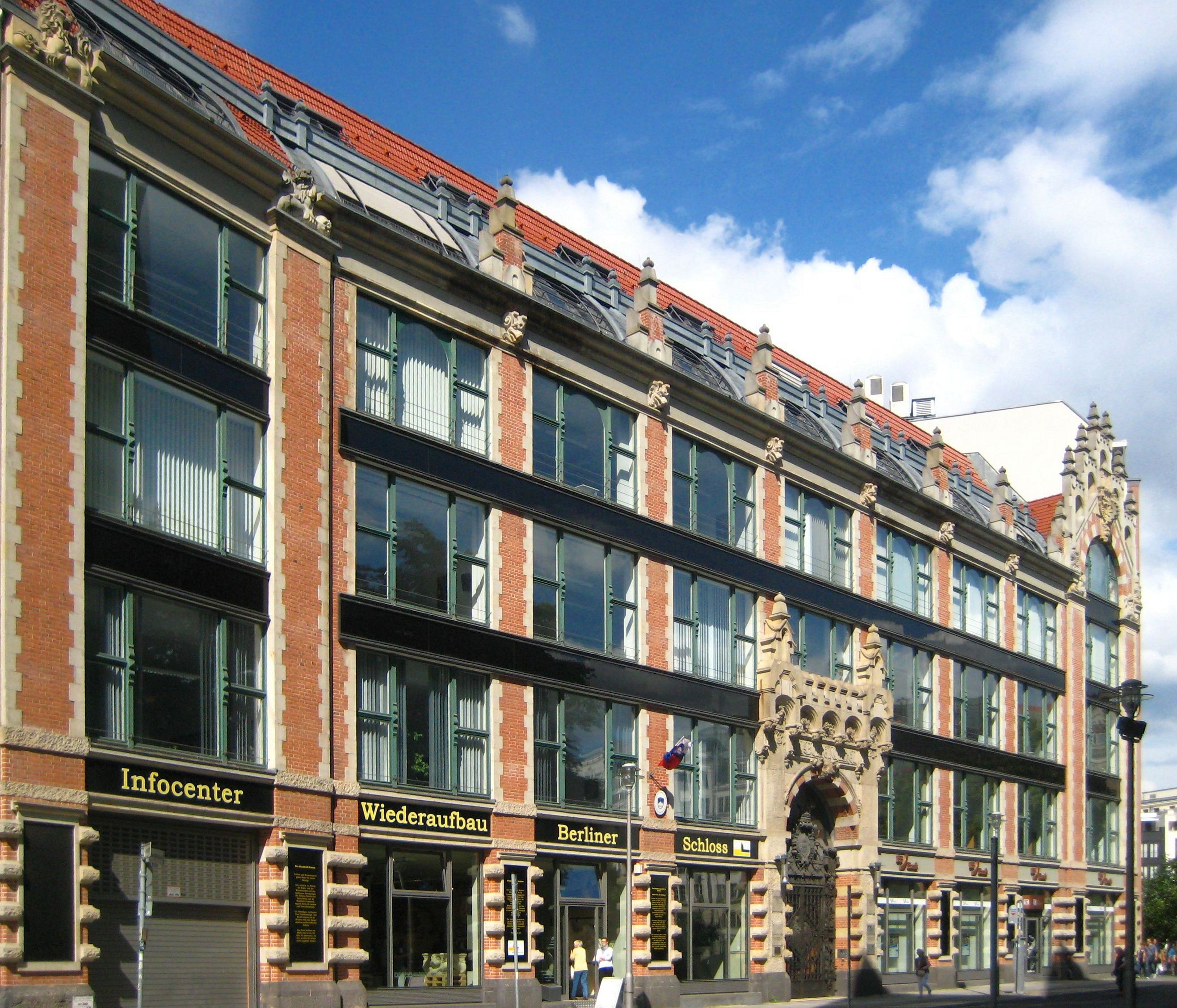 Commercial building "Am Bullenwinkel" ("At the Bulls' Corner") at Hausvogteiplatz 3-4 in Berlin-Mitte, built 1892-1893 by the architectural office Alterthum and Zadek. It was constructed on an irregularly shaped lot after two building had been torn down to make a breach from Taubenstraße (on the left) to Hausvogteiplatz. Post-WWII alterations to the facade were reversed during renovation from 1996 to 1997, thus giving the building back its original outlook. It is now seat of the Embassy of Slovenia in Germany and of an information center on the reconstruction of the Berlin Palace. The building is landmarked.